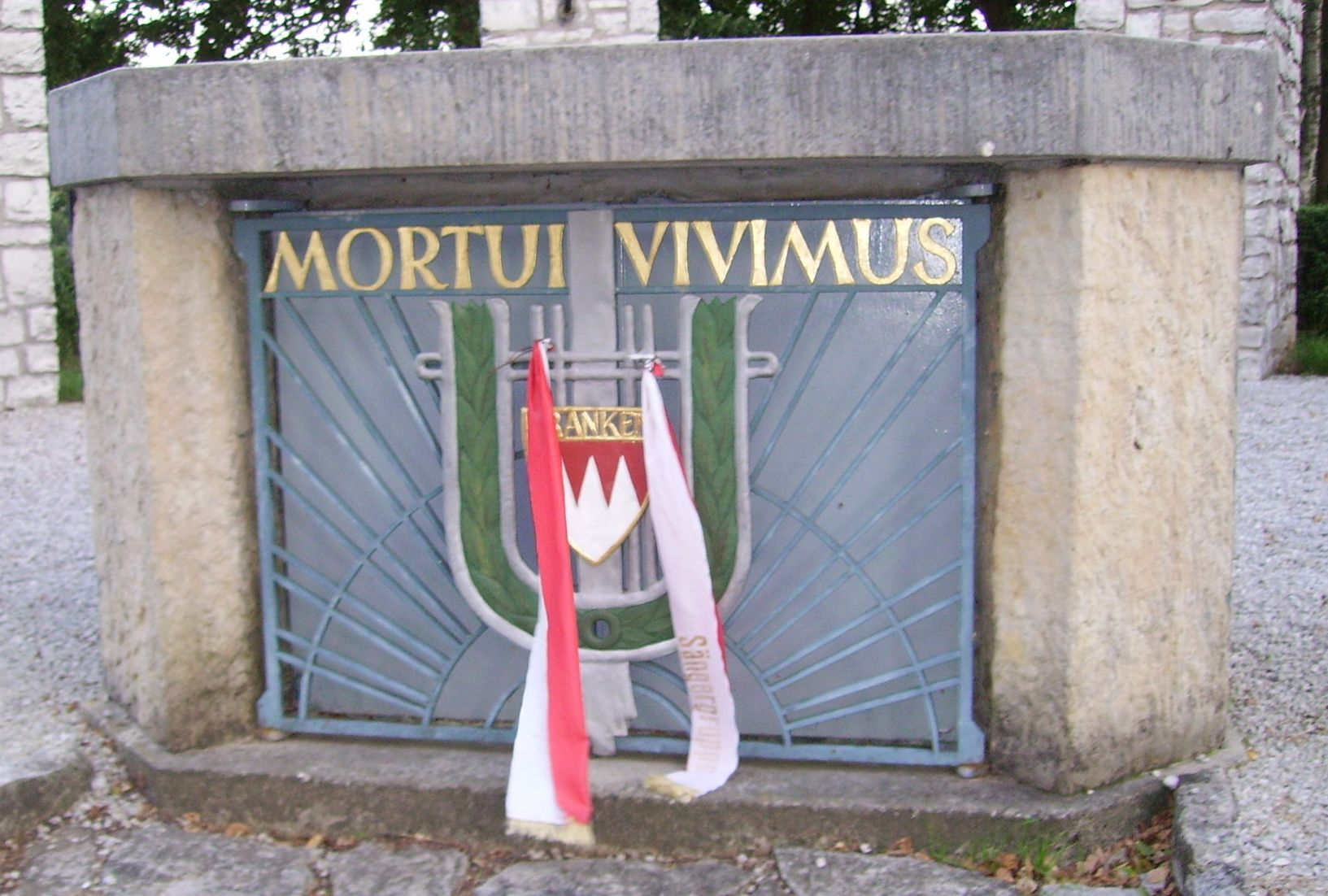 village in Germany